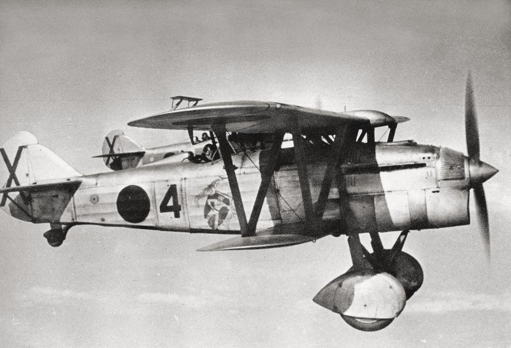 A pair of Fiat C.R.32 of the X Gruppo "Baleari". The foreground aircraft is flown by D'Agostini